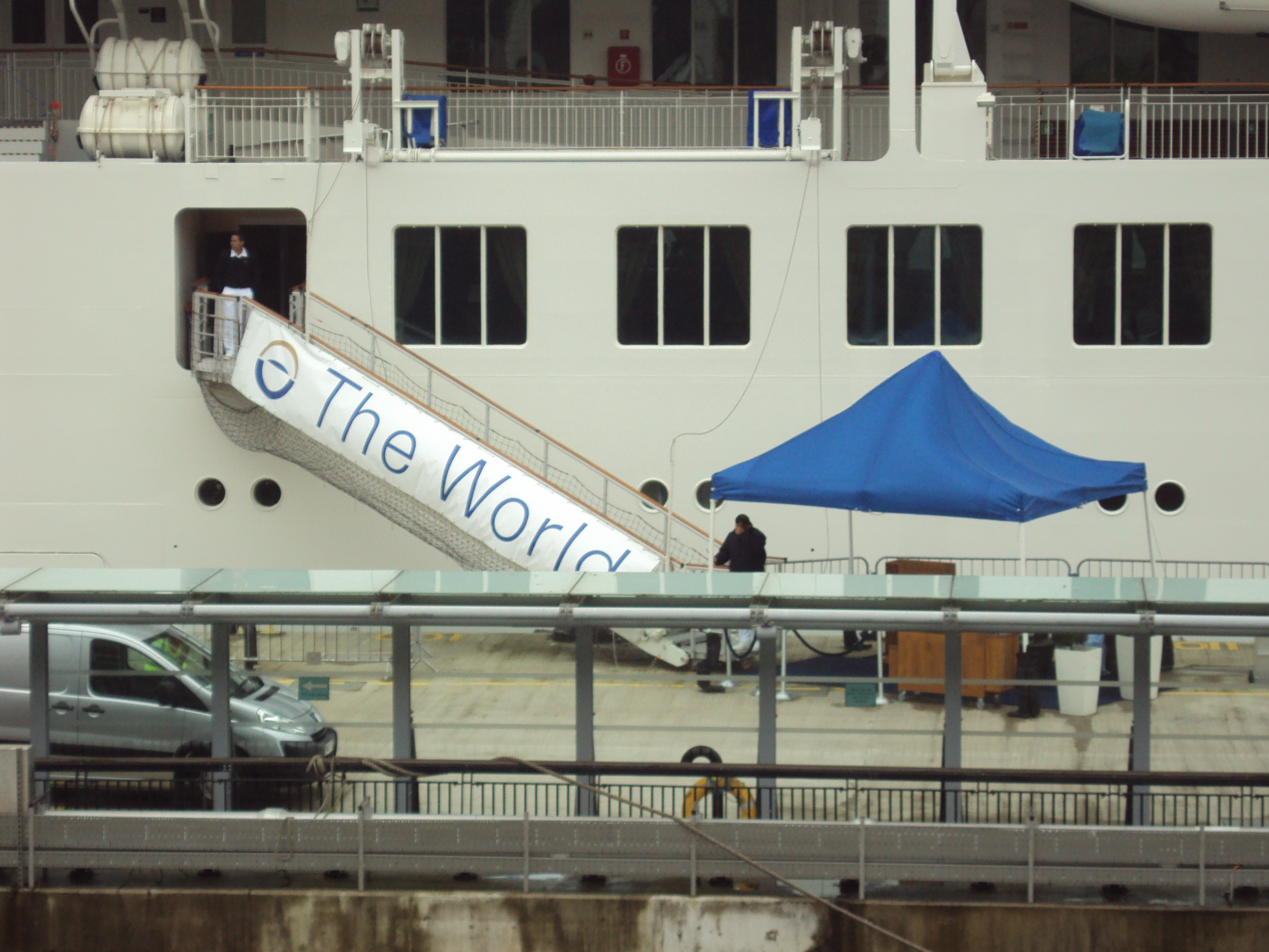 Visit of 'The World' ship to Liverpool in August 2010.